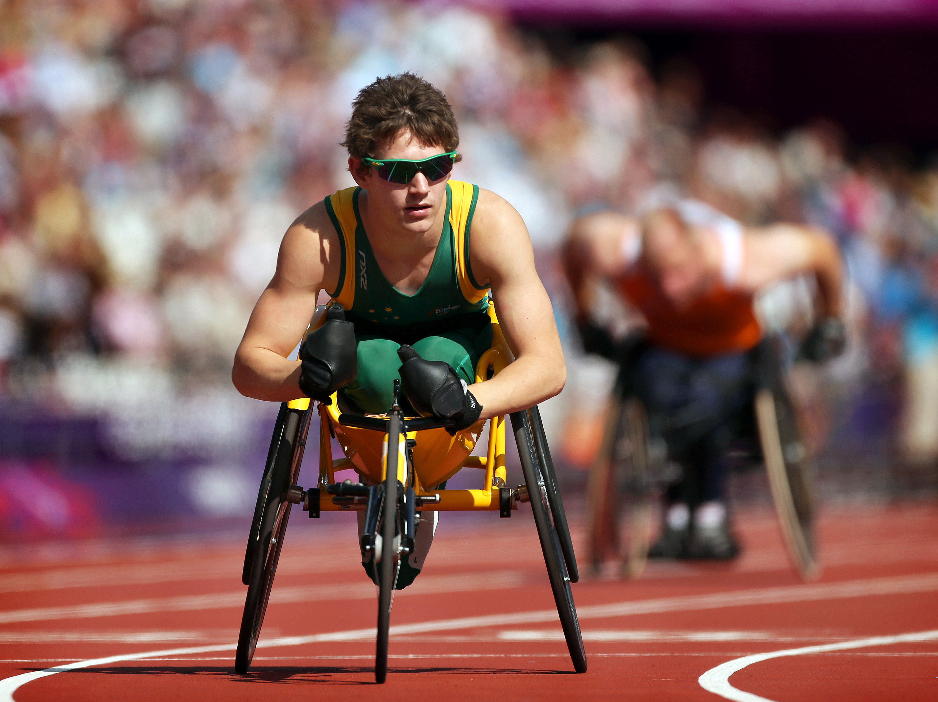 Photograph of Australian Paralympic team member Rheed McCracken at the 2012 Summer Paralympic Games in London